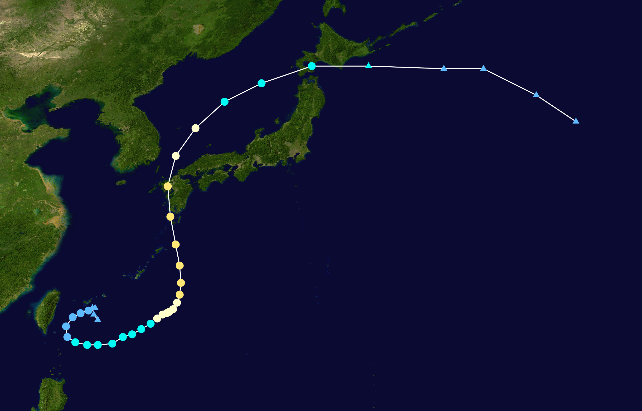 Typhoon Pat 1985 track. Uses the color scheme from the Saffir-Simpson Hurricane Scale.